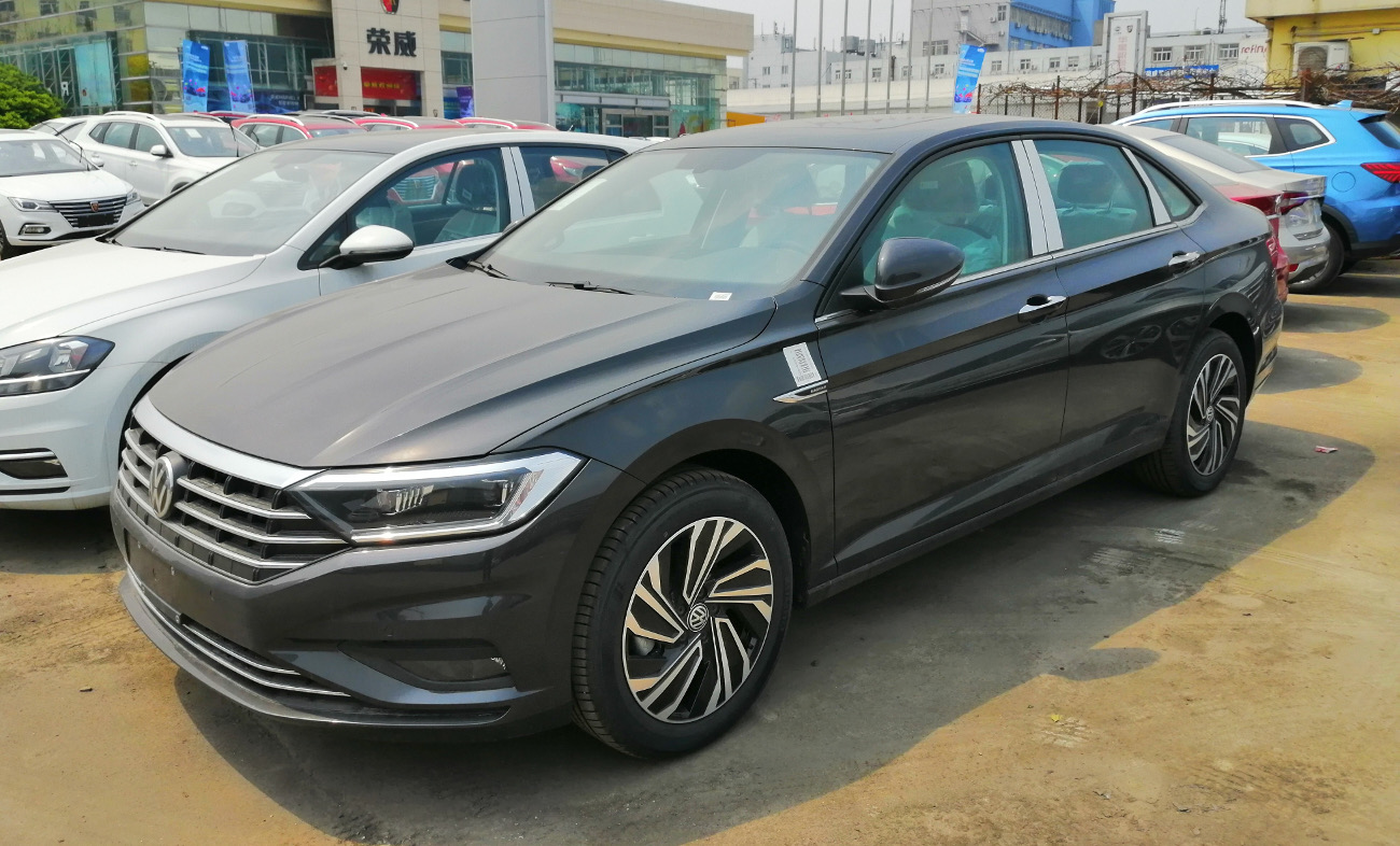 Volkswagen Sagitar III photographed in Shanghai, China.